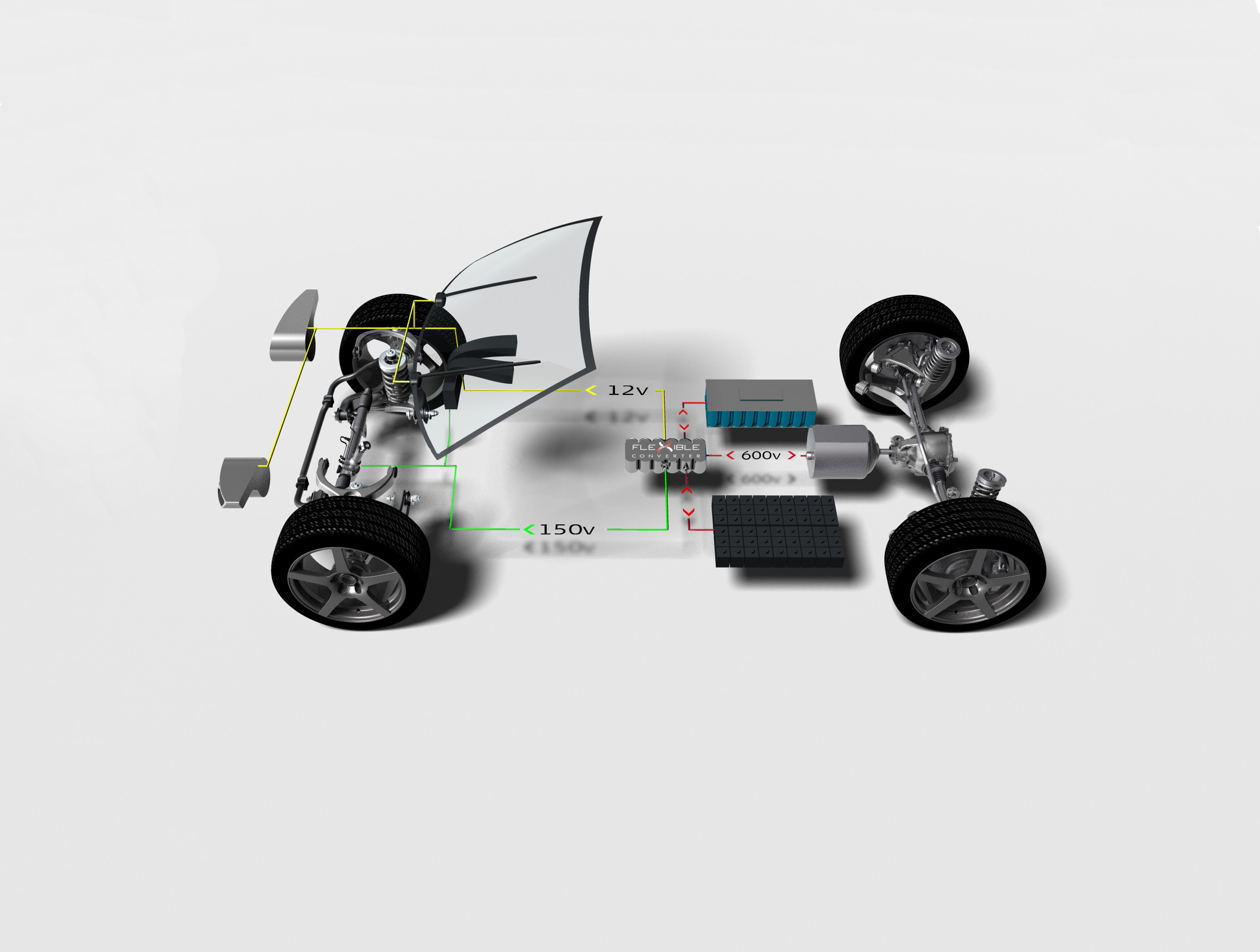 Prodrive has developed a highly efficient DC-DC converter for electric and hybrid cars using the latest silicon carbide technology